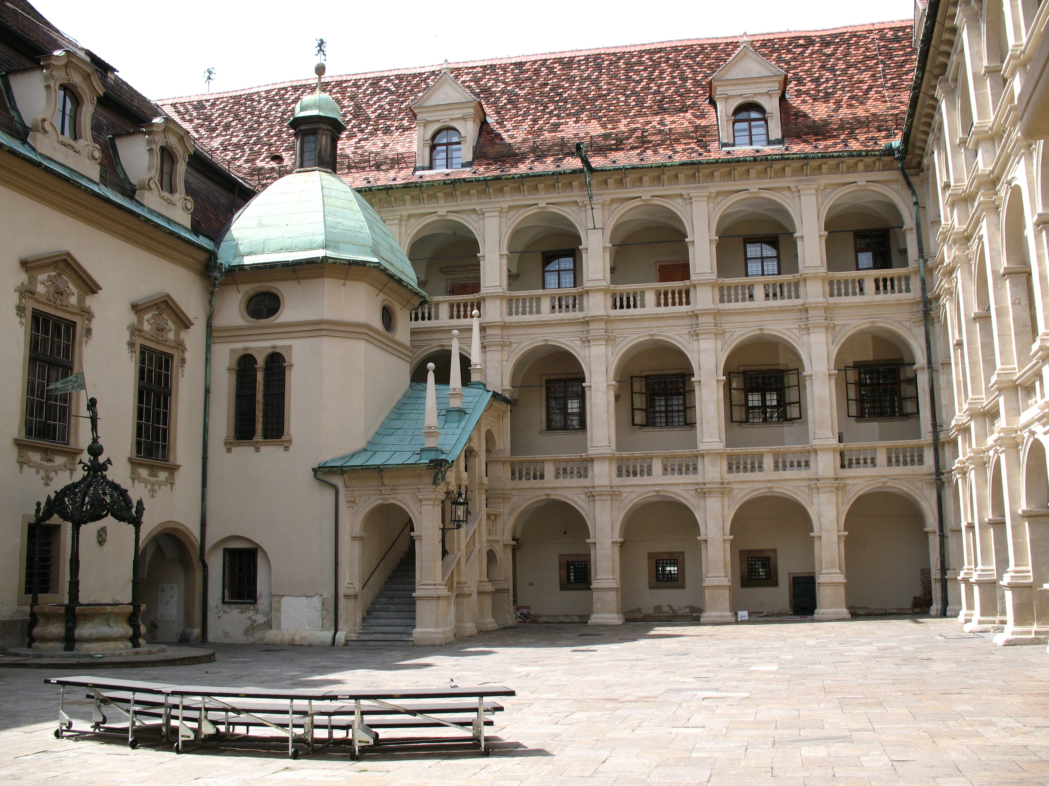 Countryhouse yard, Graz, Austria